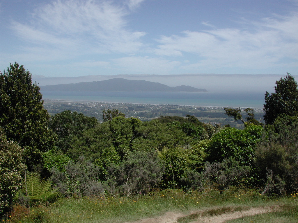 View towards Kapiti Island from Hemi Matenga Park, Waikanae.